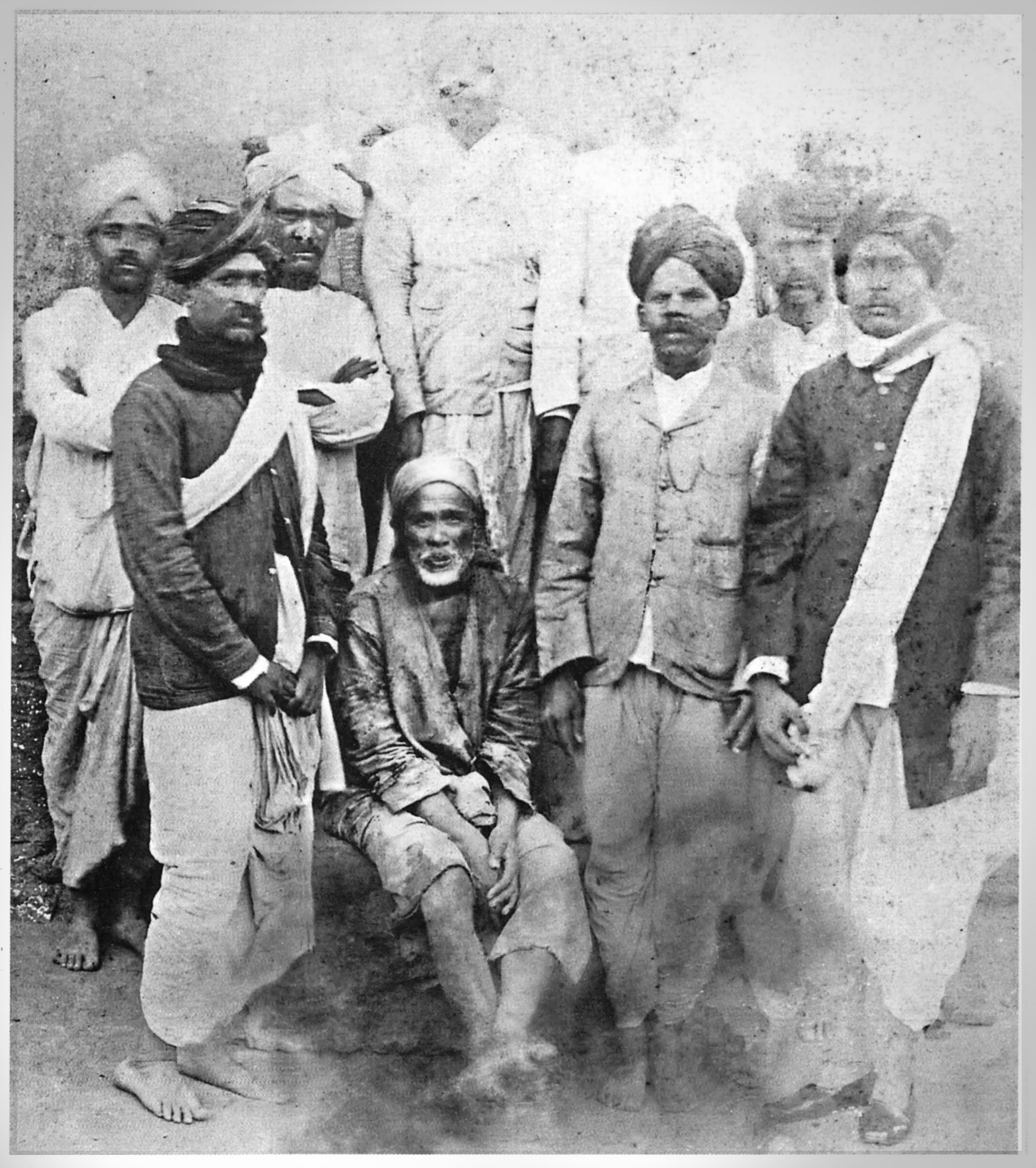 Shirdi Sai Baba and devotees in Shirdi. Photo taken before October 15th, 1918